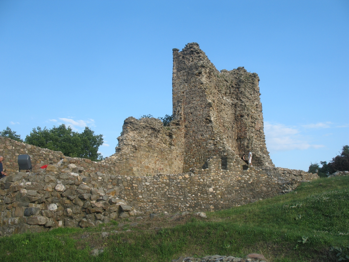 Remains Donjon Tower in Kruševac fortress in Kruševac, Serbia.